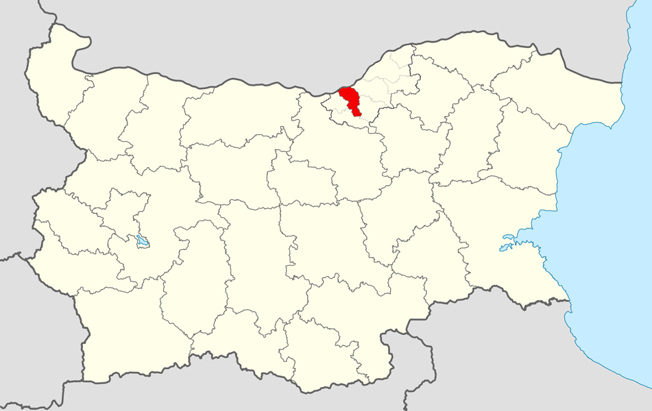 Location map of Borovo Municipality within Bulgaria and Ruse Province. Equirectangular projection, N/S stretching 130 %. Geographic limits of the map: N: 44.4° N S: 41.1° N W: 22.1° E E: 28.9° E